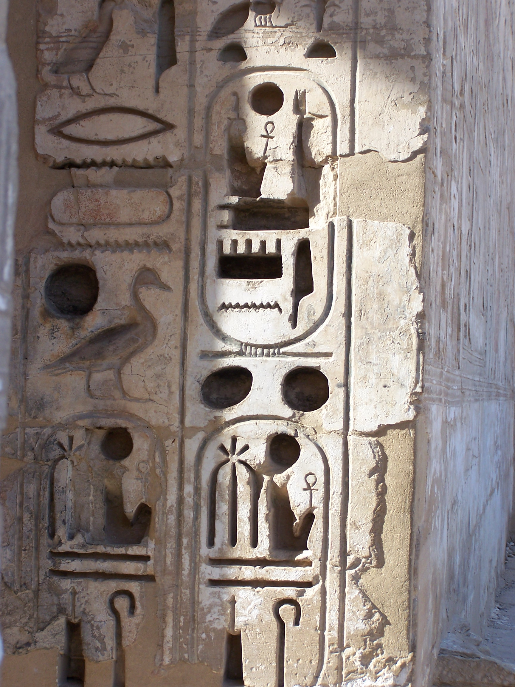 Cartouches of King-Pharaoh Ramesses III, Medinet Habu